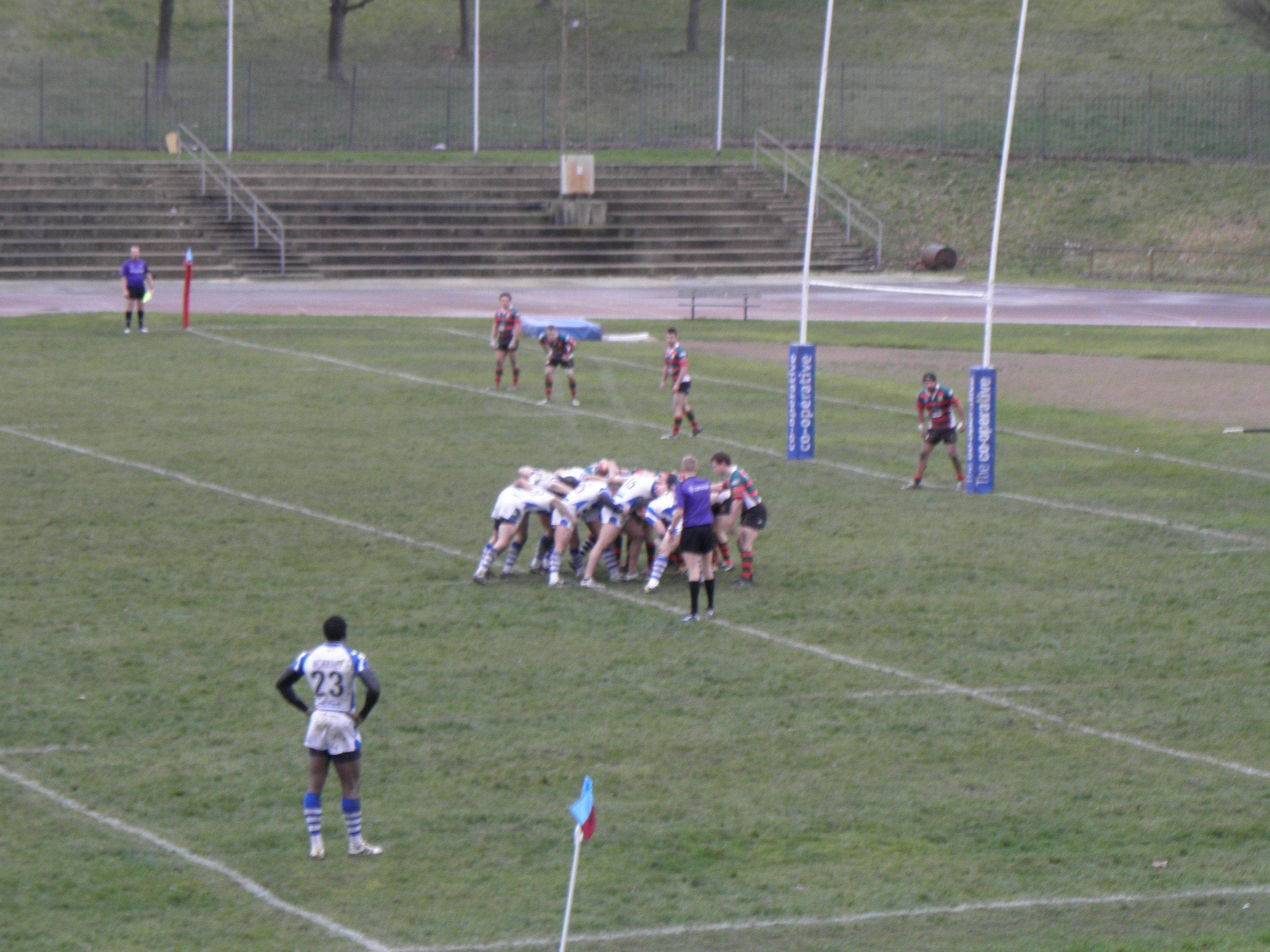 Scrum Down at New River Stadium, White Hart Lane